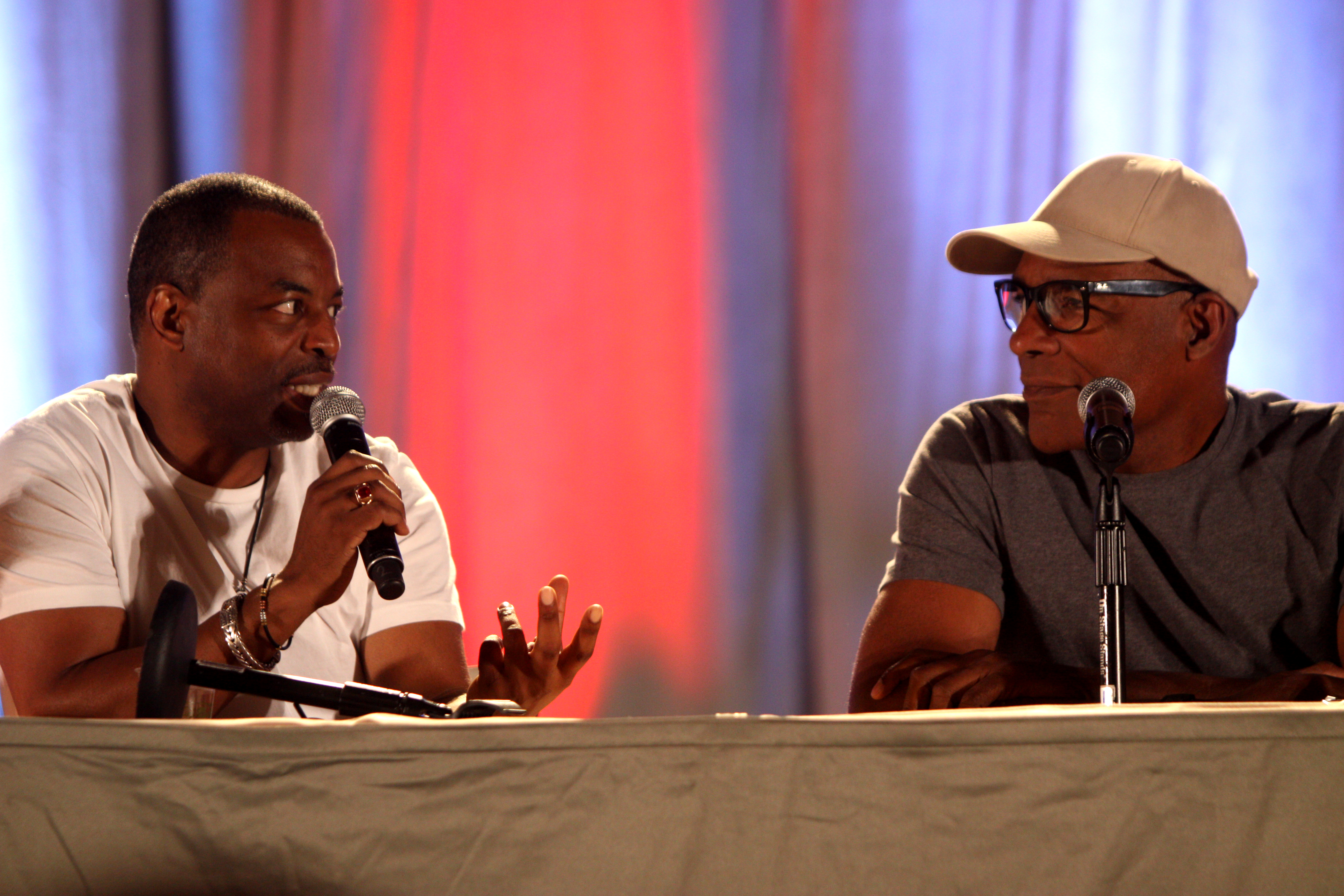 LeVar Burton and Michael Dorn speaking at the 2012 Phoenix Comicon in Phoenix, Arizona.